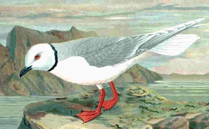 Rhodostethia rosea (english: Ross's Gull)